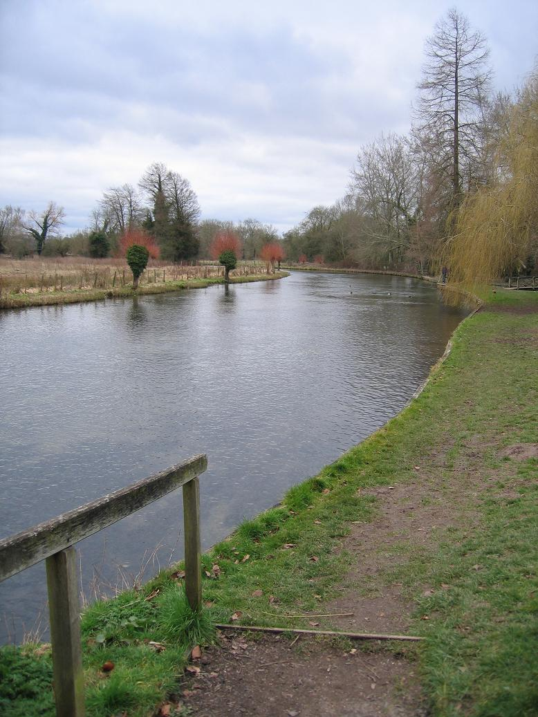 The River Anton looking south from Goodworth Clatford.